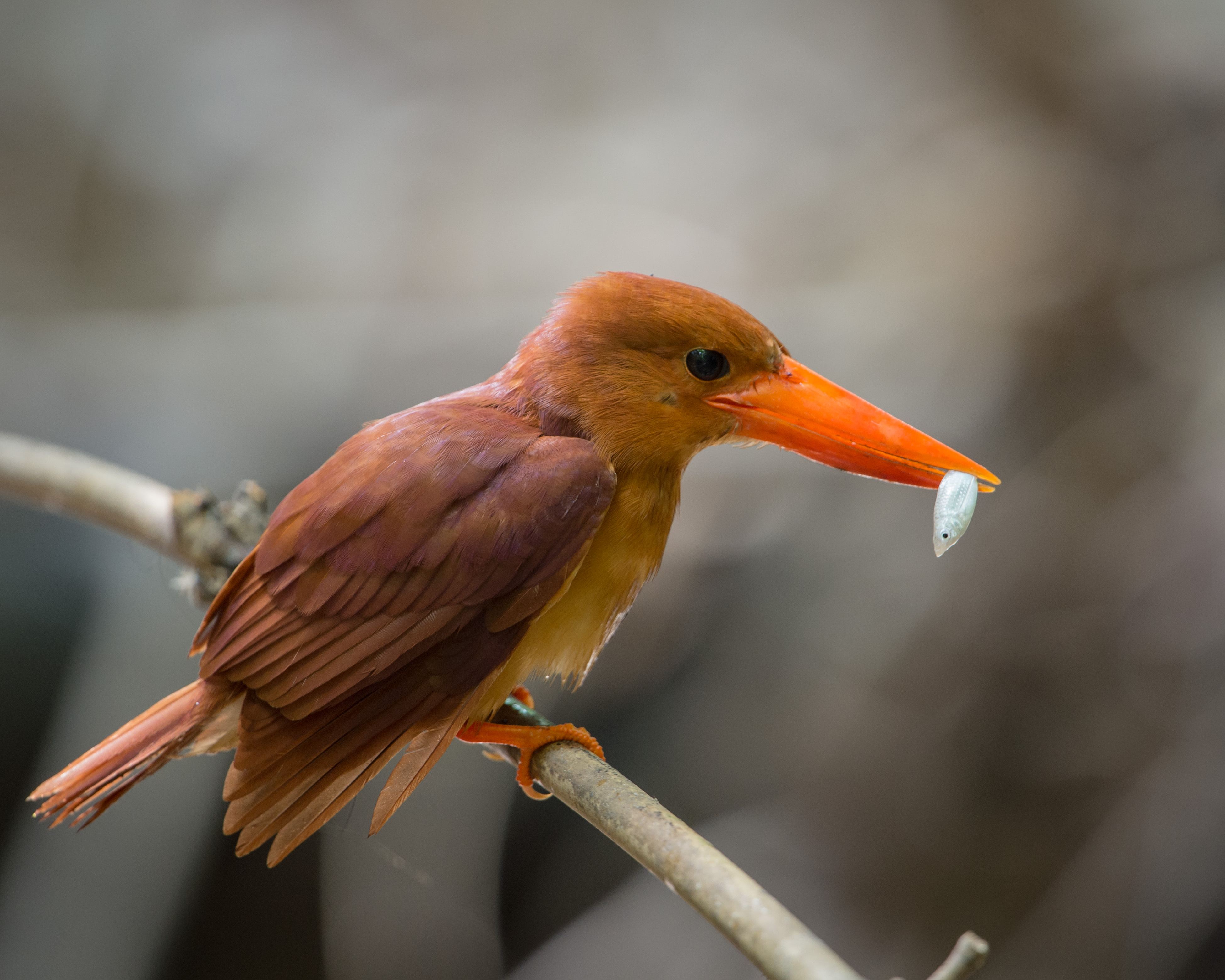 Ruddy kingfisher at Kaeng Krachan National Park, Thailand